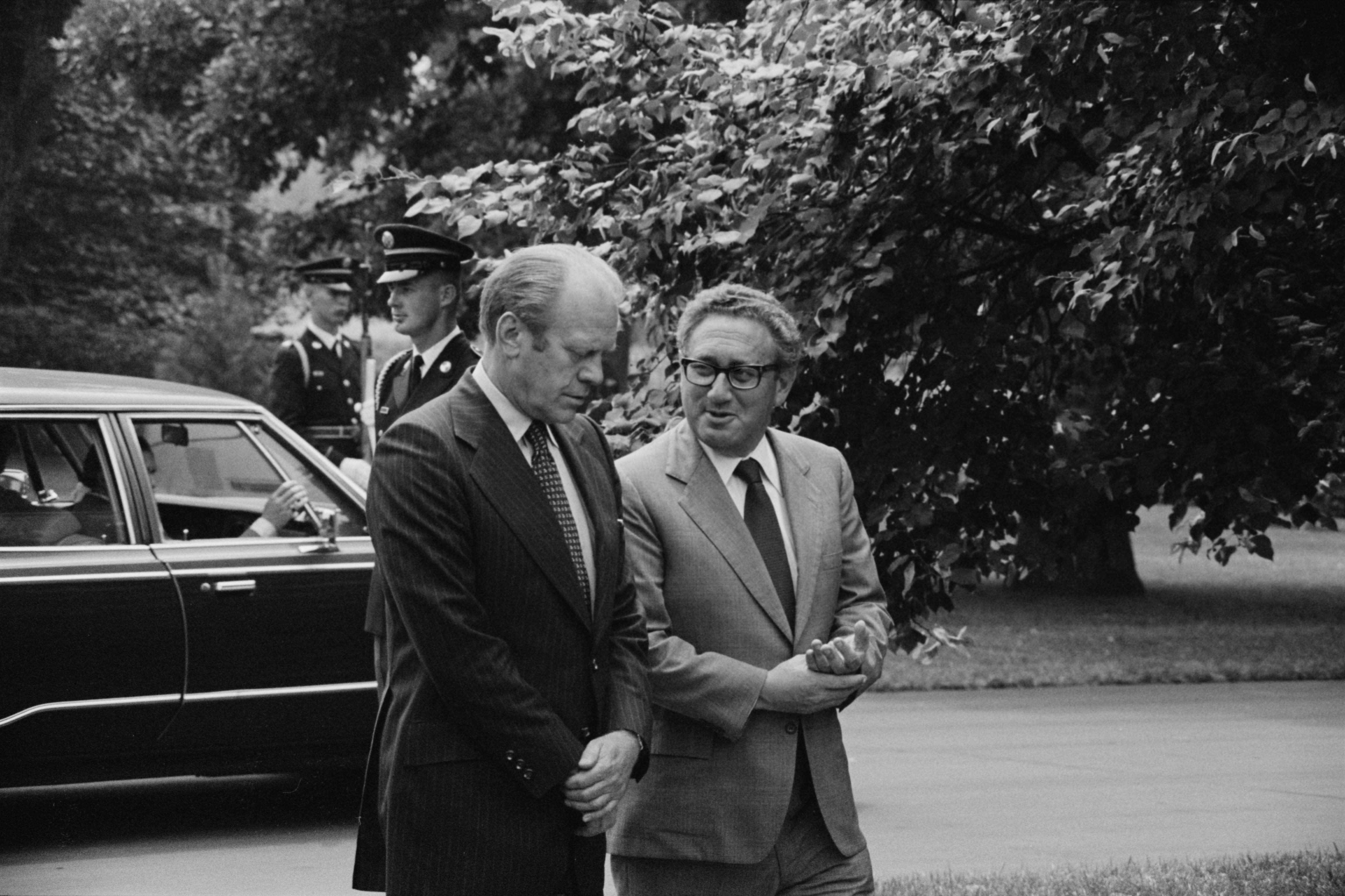 President Gerald Ford and Secretary of State Henry Kissinger, conversing, on the grounds of the White House, Washington, D.C..